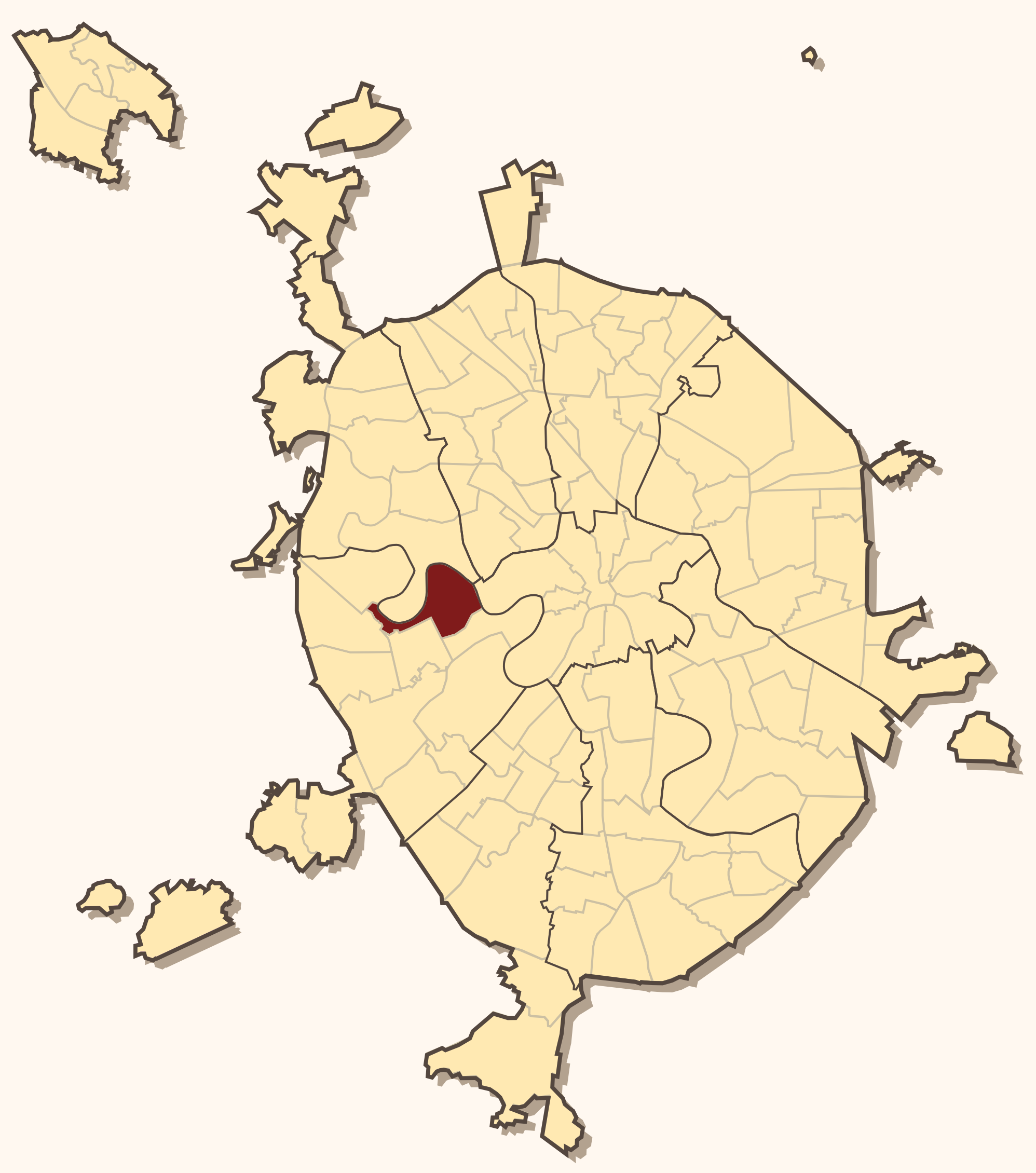 Moscow districts map